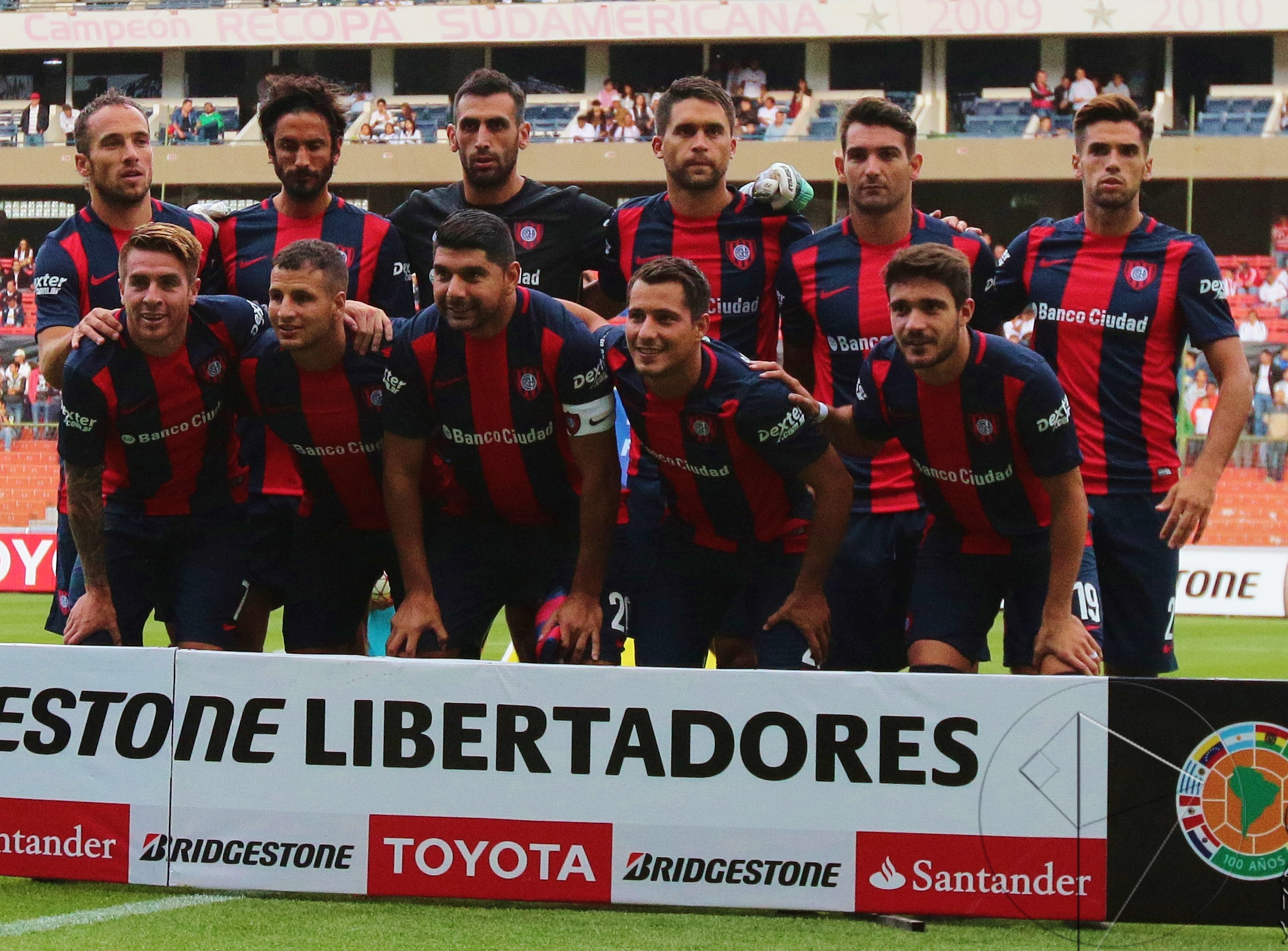 Club Atlético San Lorenzo de Almagro 2016. (up): Belluschi, Angeleri, Torrico, Caruzzo, Cauteruccio, Más; (down): Buffarini, Mussis, Ortigoza, Blanco, Cerutti.